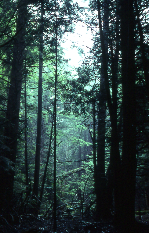 forest, fallsburg, ny, photo by Sardaka 03:04, 13 July 2007 (UTC)